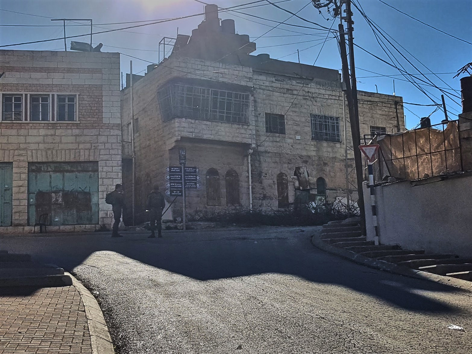 street junction in Hebron neighbourhood of Tel Rumeida where Elor Azaria shot to kill Abdelfattah al-Sharif on 24 March 2016